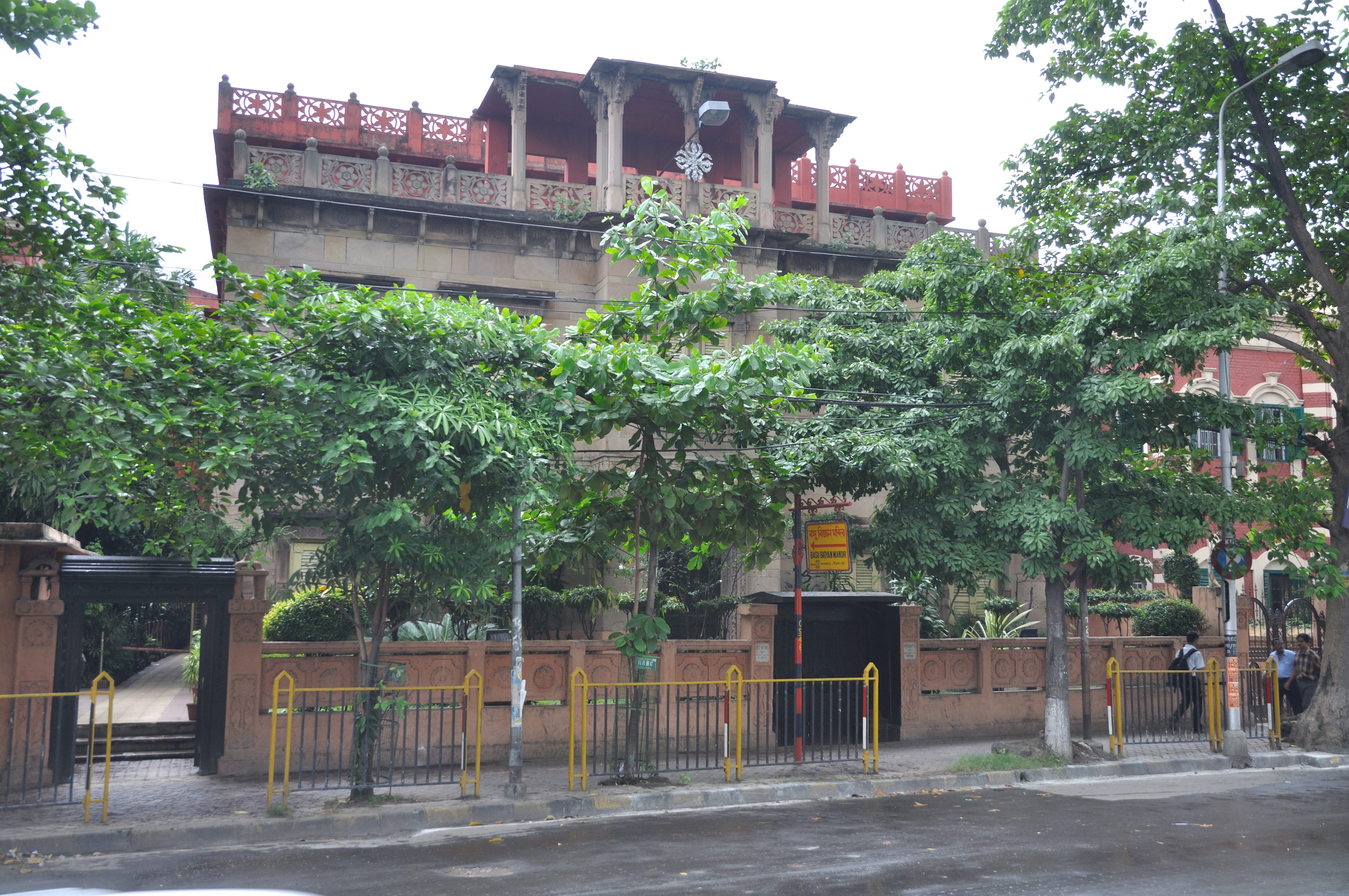 Bose Institute at Kolkata, is world-class research institute in the fields of Physics, Chemistry, Botany, Microbiology, Biochemistry, Biophysics, Plant Molecular & Cellular Genetics, Animal physiology, Immunotechnology and Environmental science. The institute was established in 1917 by Acharya Jagdish Chandra Bose.